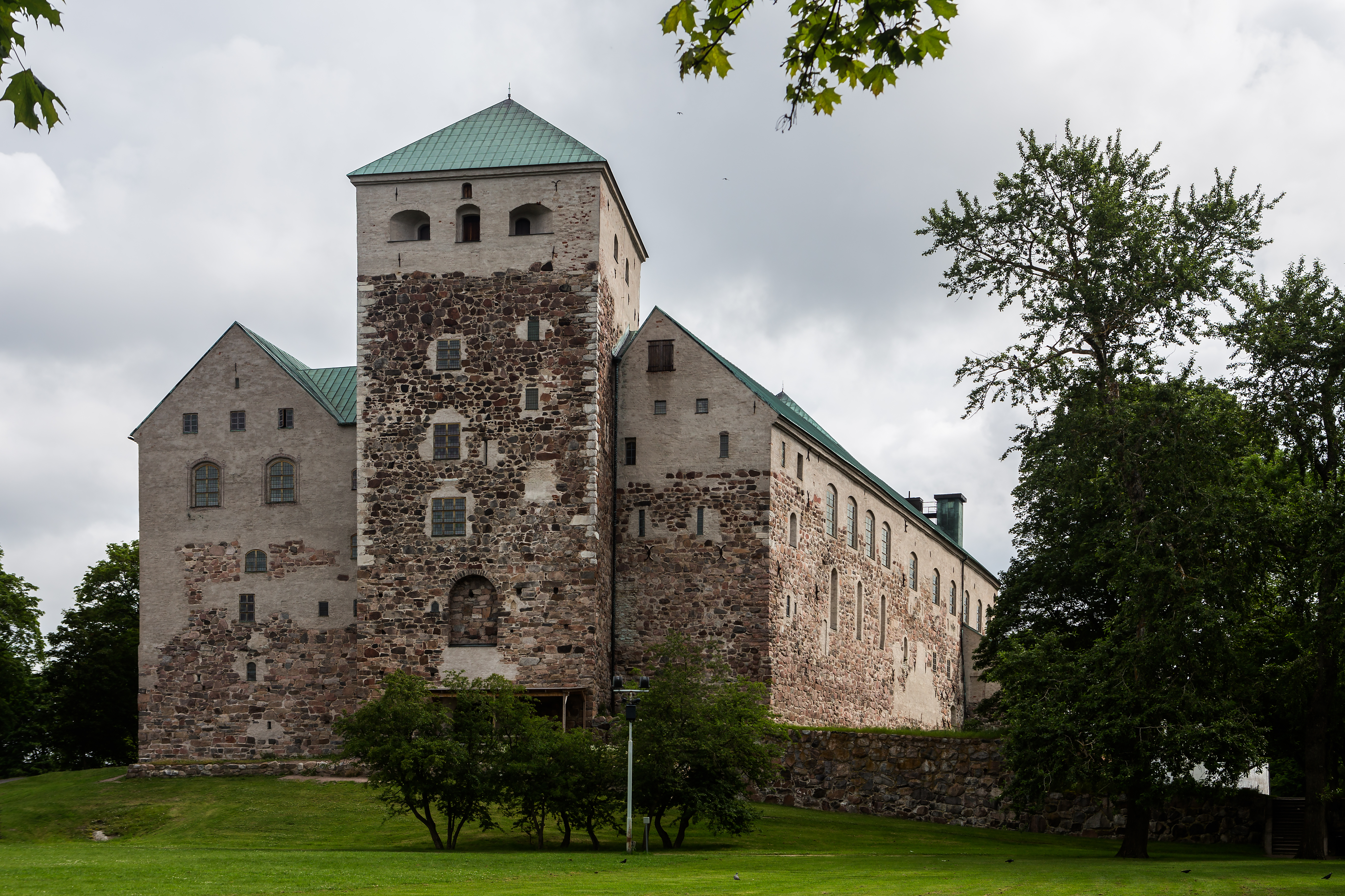 Turku Castle from the west